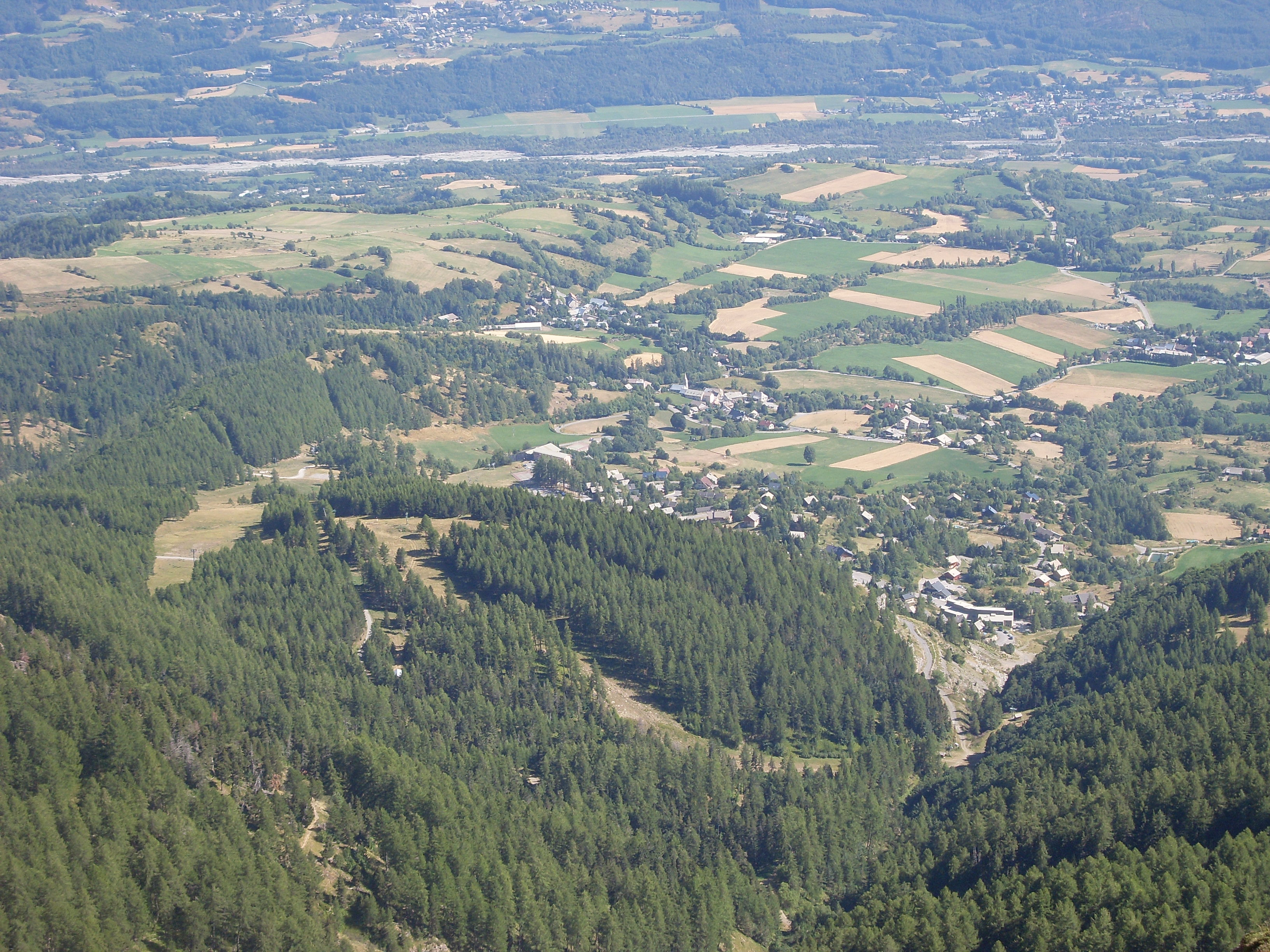 chaillol